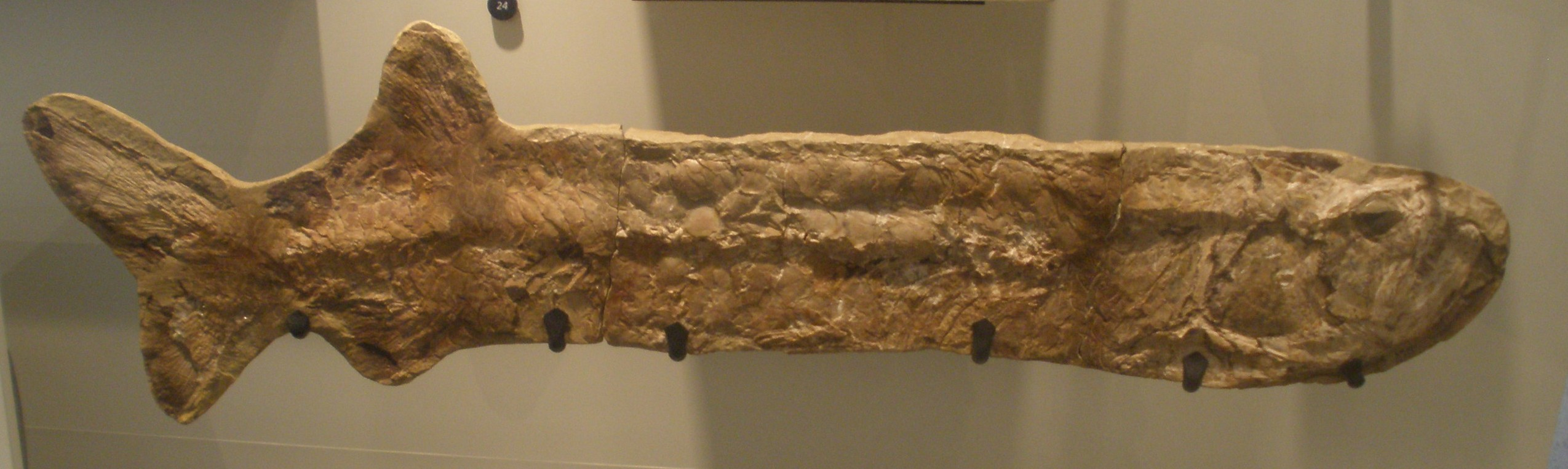 Skeleton of Cladocyclus, a fossil fish